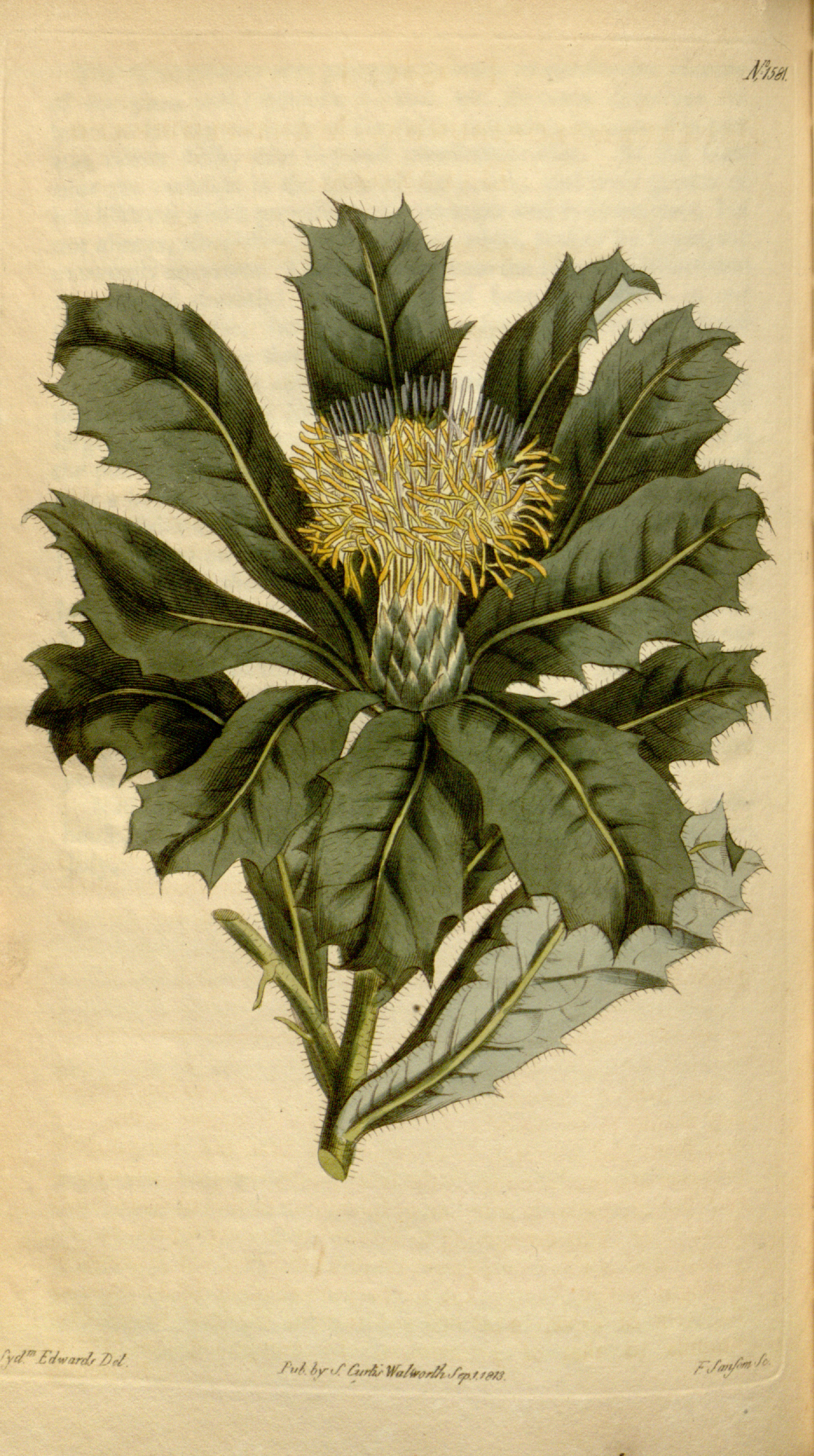 Volume 38 Pl 1581_. The title is Dryandra_floribunda. Many-Flowered Dryandra. The image contains a species variety currently known as Banksia sessilis (Knight) Domin var. sessilis The image has the signature of Edwards and Sansom.